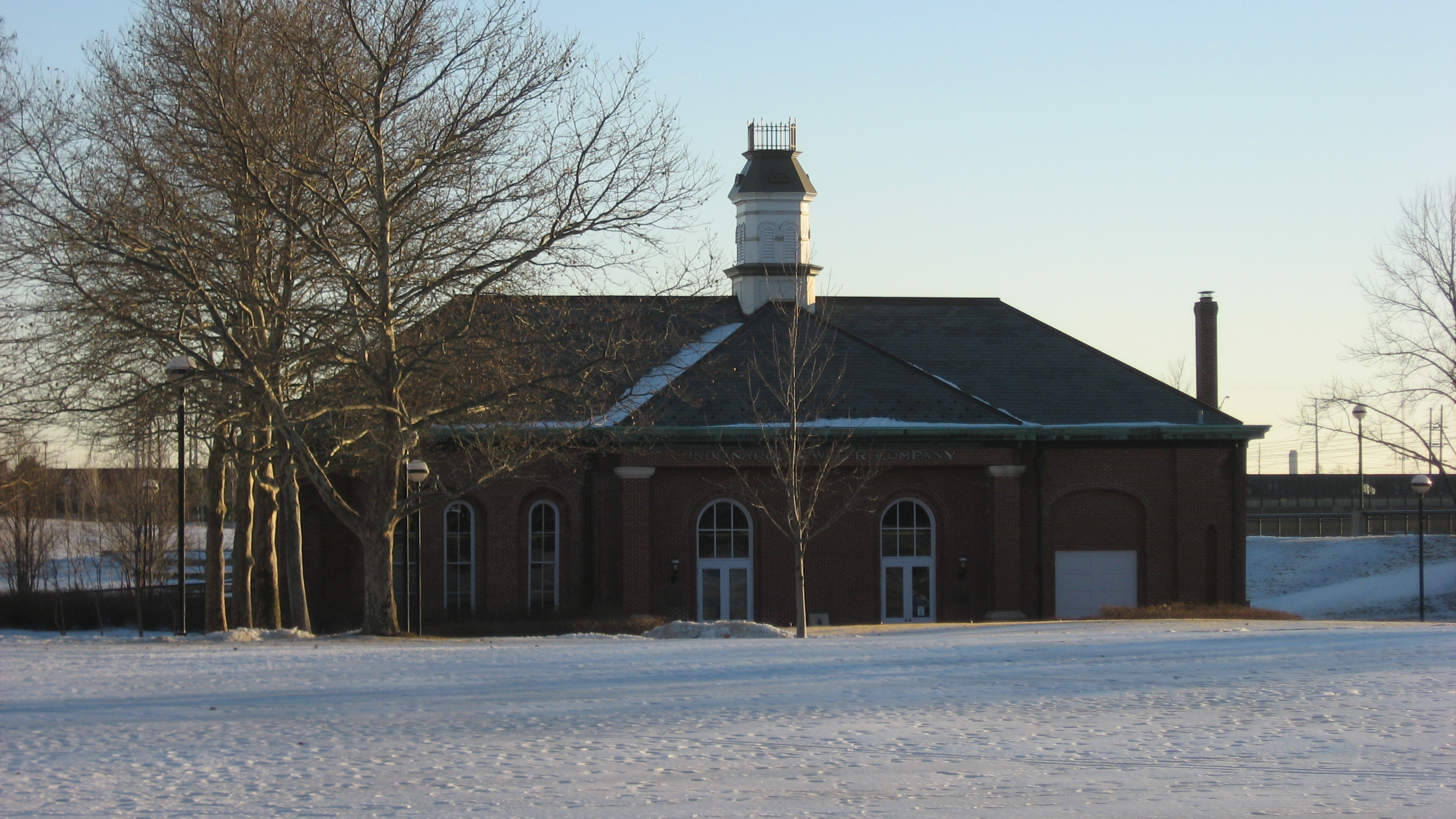 Rear of the West Washington Street Pumping Station, located at 801 W. Washington Street in Indianapolis, Indiana, United States. Built in 1870, it is listed on the National Register of Historic Places.